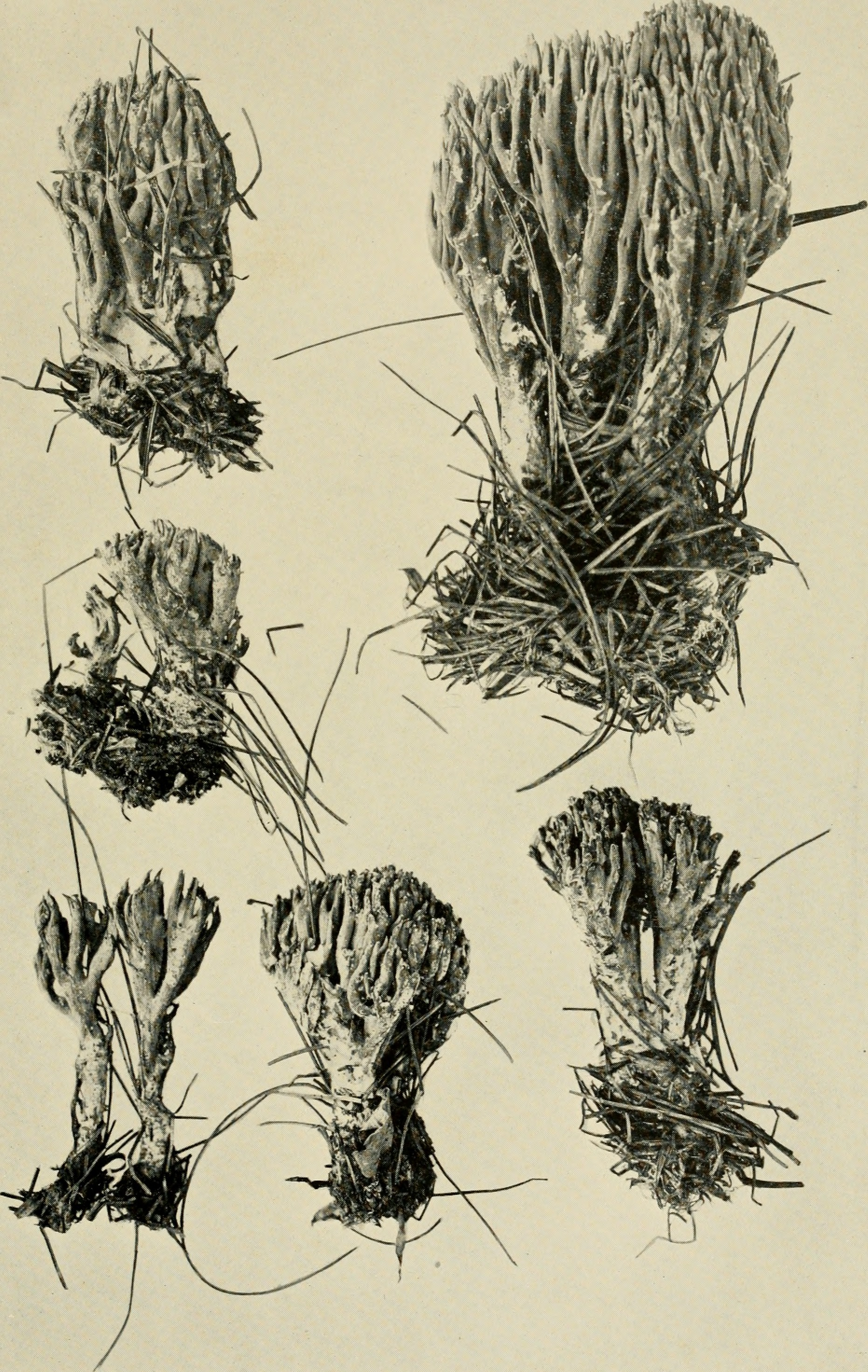 Title: The clavarias of the United States and Canada Year: 1923 (1920s) Authors: Coker, William Chambers, 1872-1953 Subjects: Clavaria Publisher: Chapel Hill, N. C. , The University of North Carolina press Text Appearing Before Image: PLATE 69 Text Appearing After Image: Clavaria abietina. Large form of pines. B. No. 91.